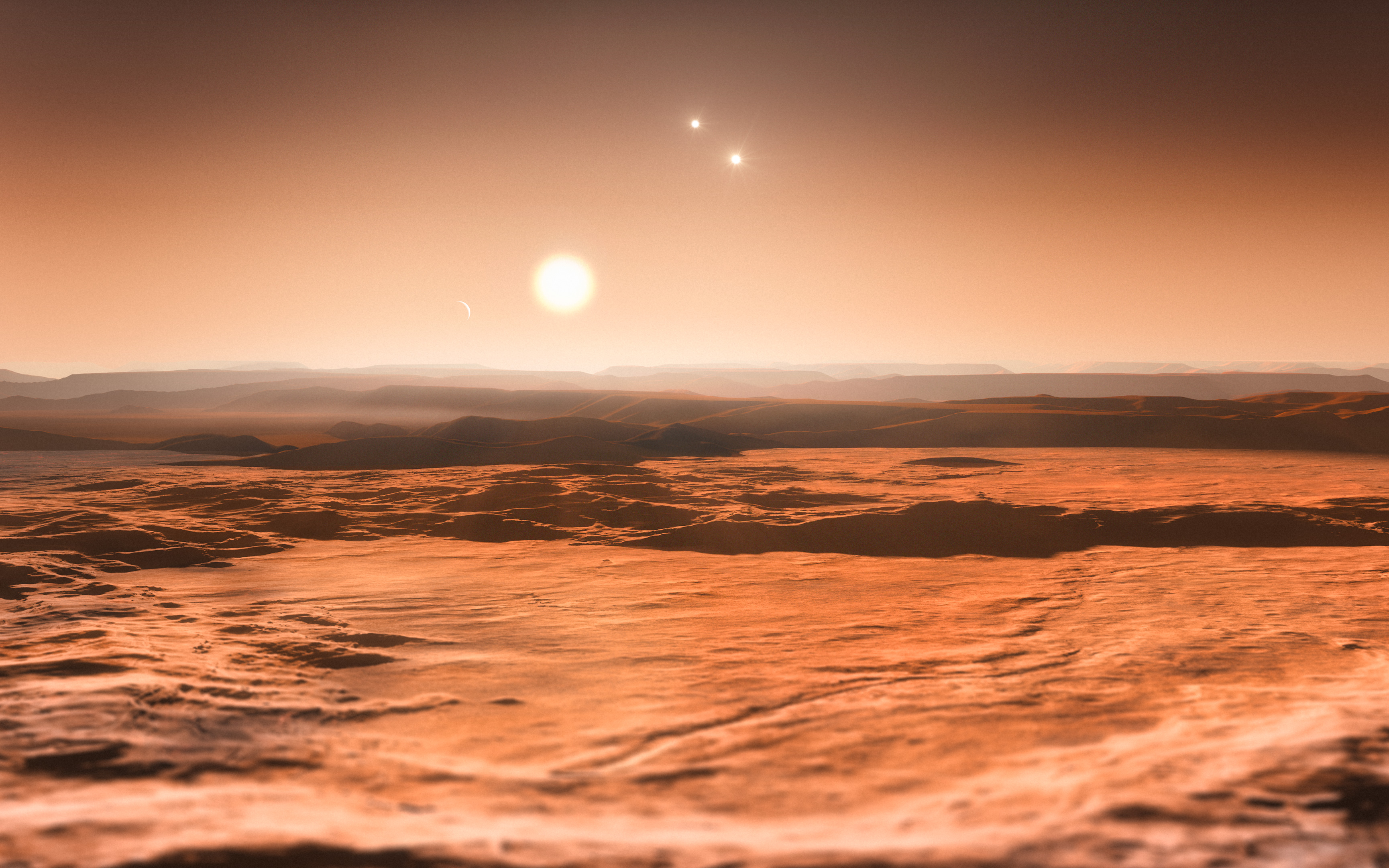 Artist's impression of the Gliese 667C system